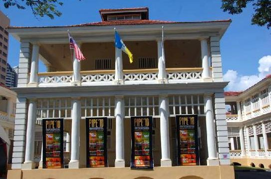 A branch of the Penang State Museum is housed within the former King Edward VII Hospital at Macalister Road, George Town, Penang